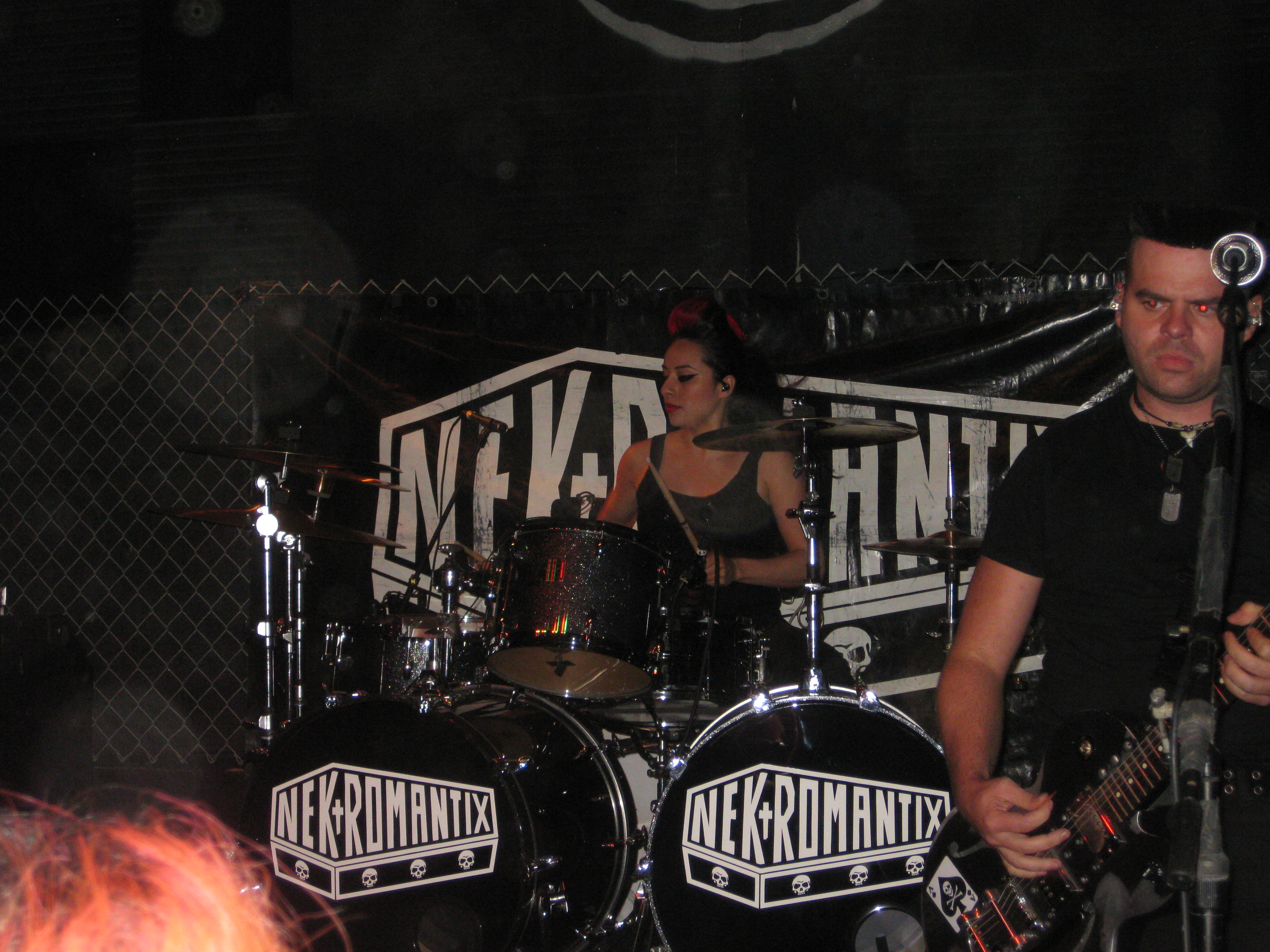 Drummer Lux (center) and guitarist/backing vocalist Francisco Mesa (right) of psychobilly band the Nekromantix performing in San Diego, California on August 13, 2011.